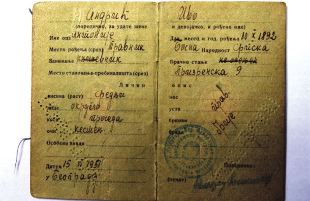 Ivo Andrić personal ID card where he declared himself as Serbian